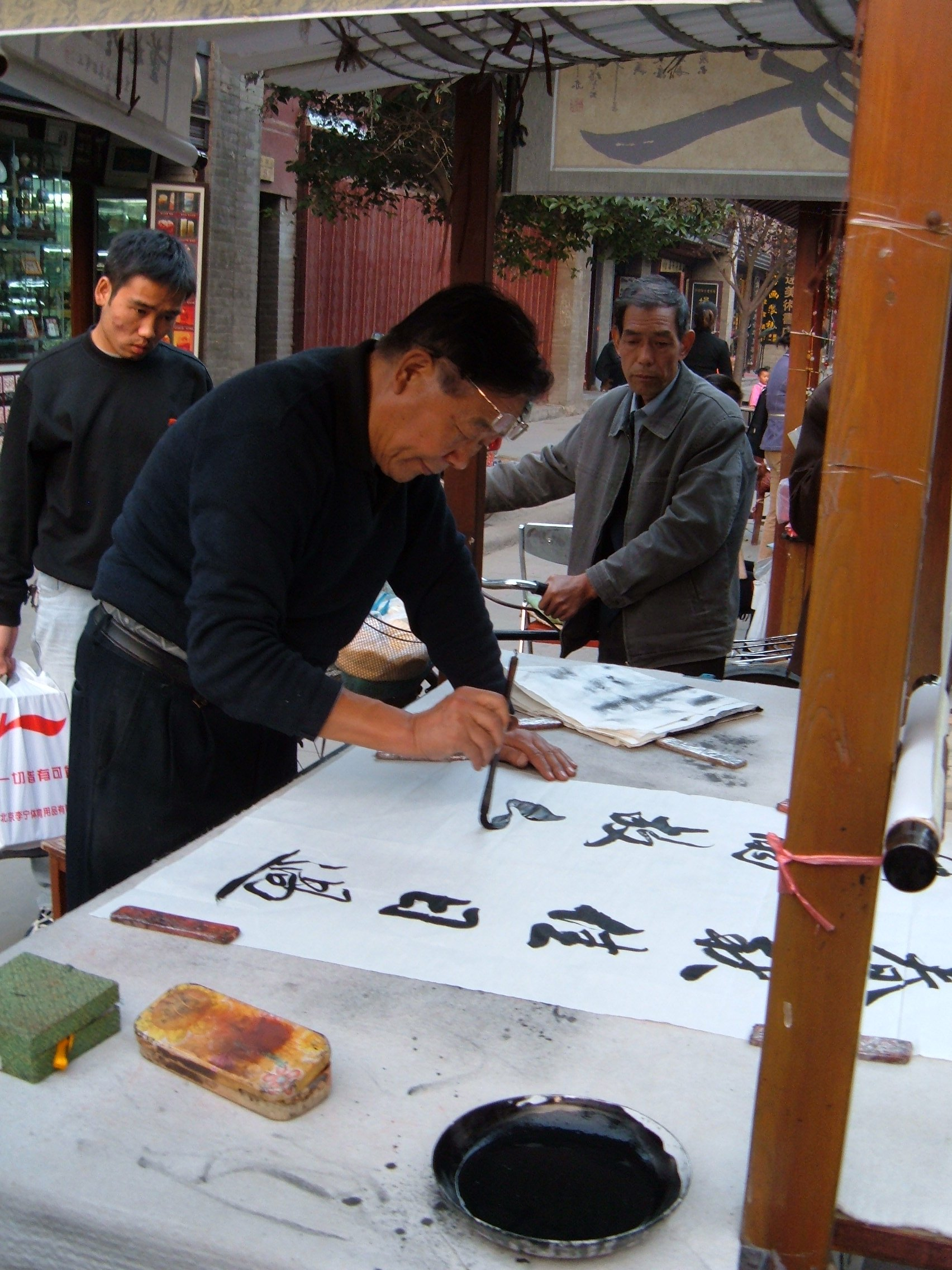 A calligrapher at work on Culture Street in Xi'an, China.